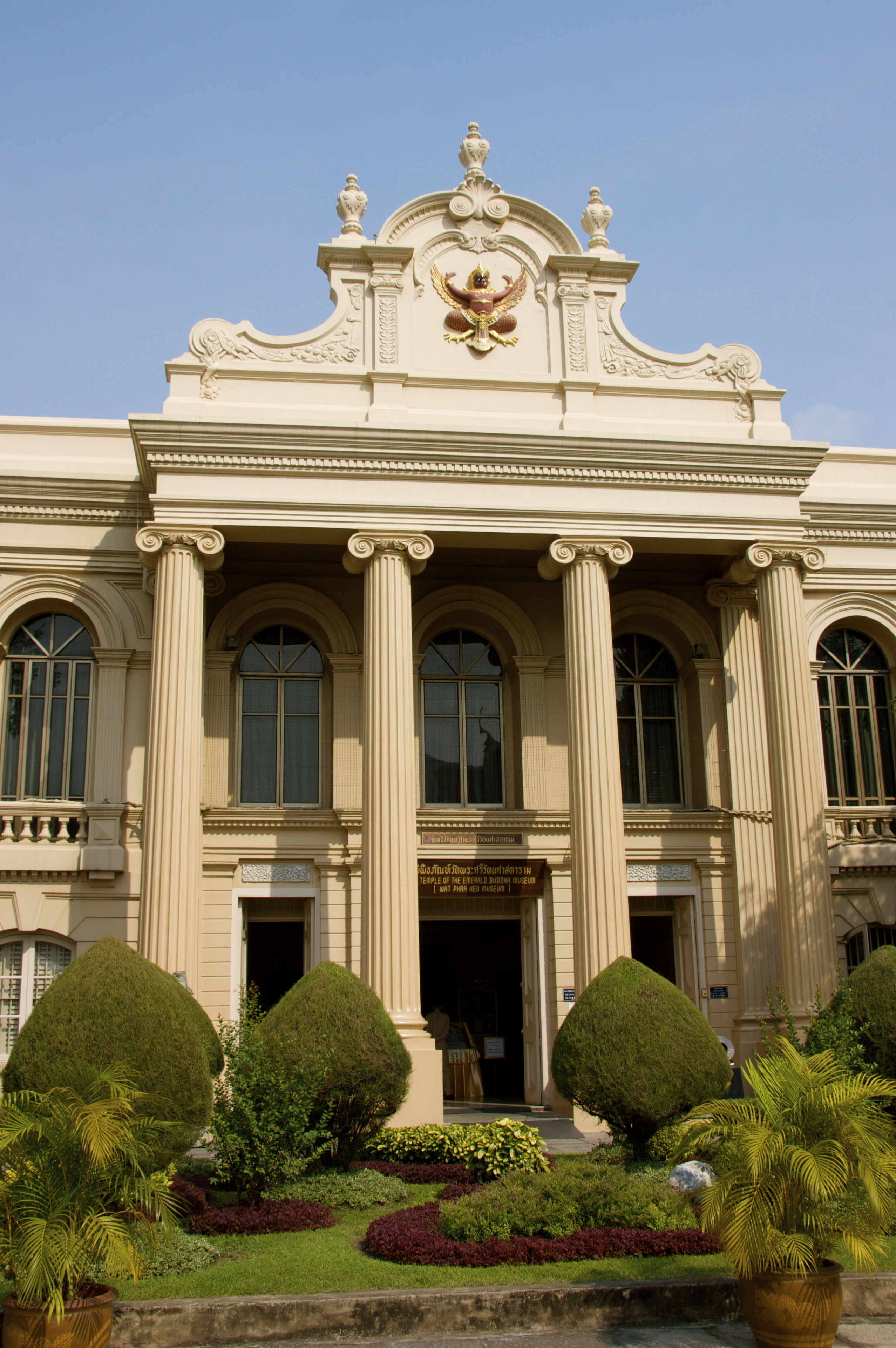 Wat Phra Keow Museum, Grand Palace, Bangkok, Thailand